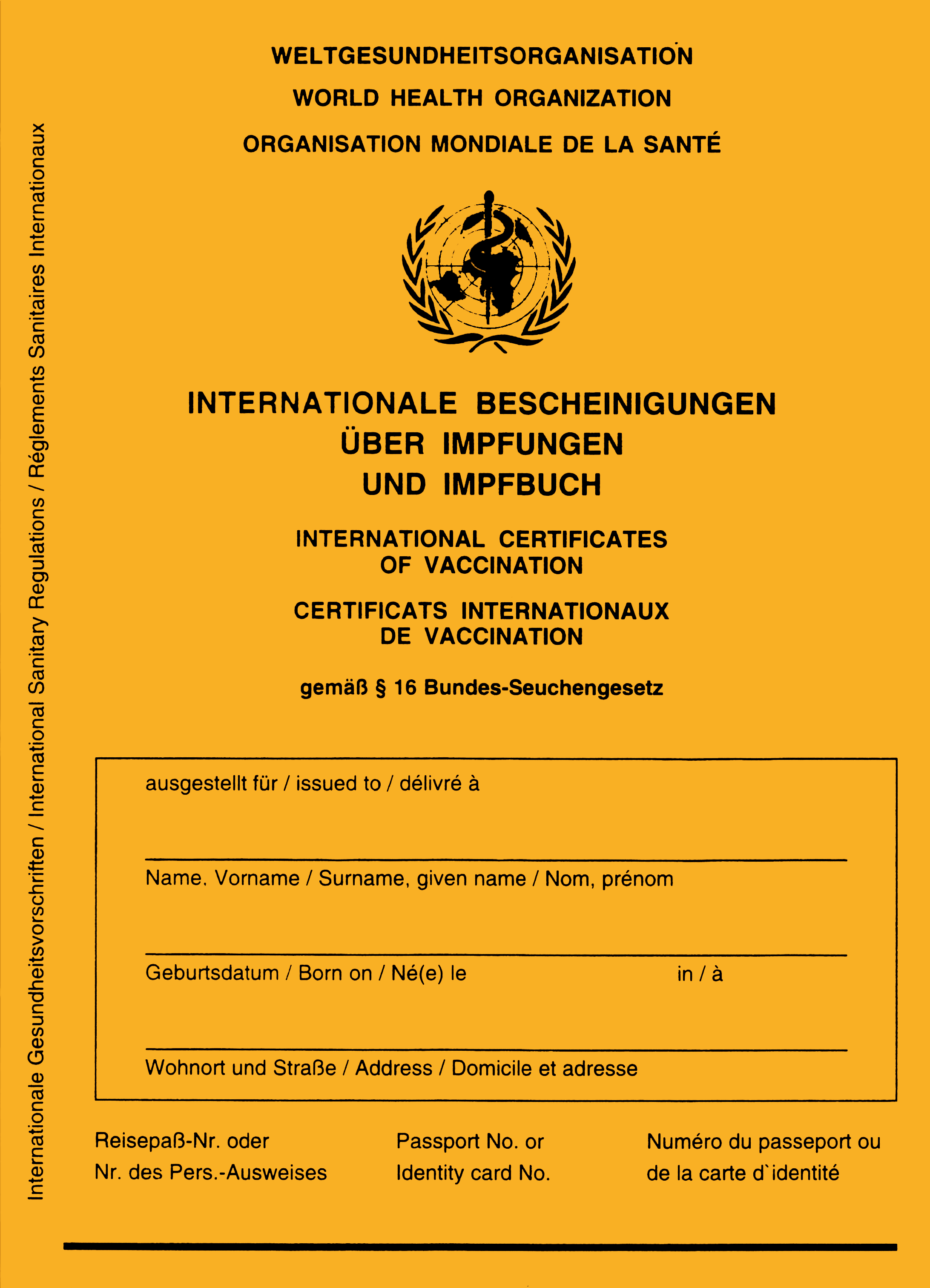 World Health Organissation: International Certificate of Vaccination